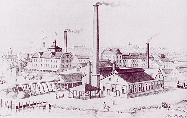 Picture of counsel Nils Persson's factory in Helsingborg from 1888.